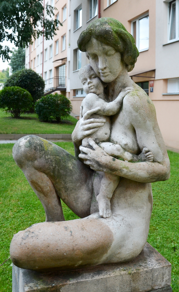 Peter Oriešek, Mother and child, artificial stone, Praha